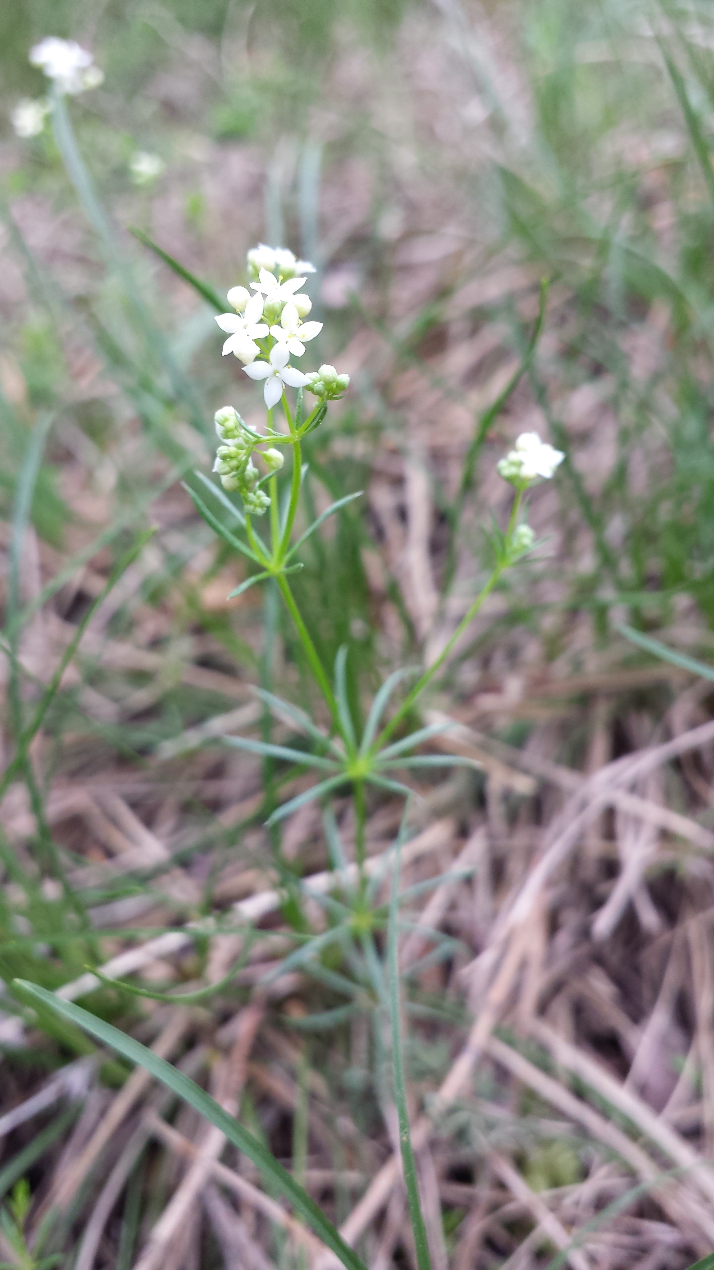 Habitus Taxon: Galium austriacum (sensu Fischer et al. EfÖLS 2008 ISBN 978-3-85474-187-9; det. M. A. Fischer 2013-05-18) Location: Fischauer Berge, district Wiener Neustadt, Lower Austria Habitat: wood of Austrian pines